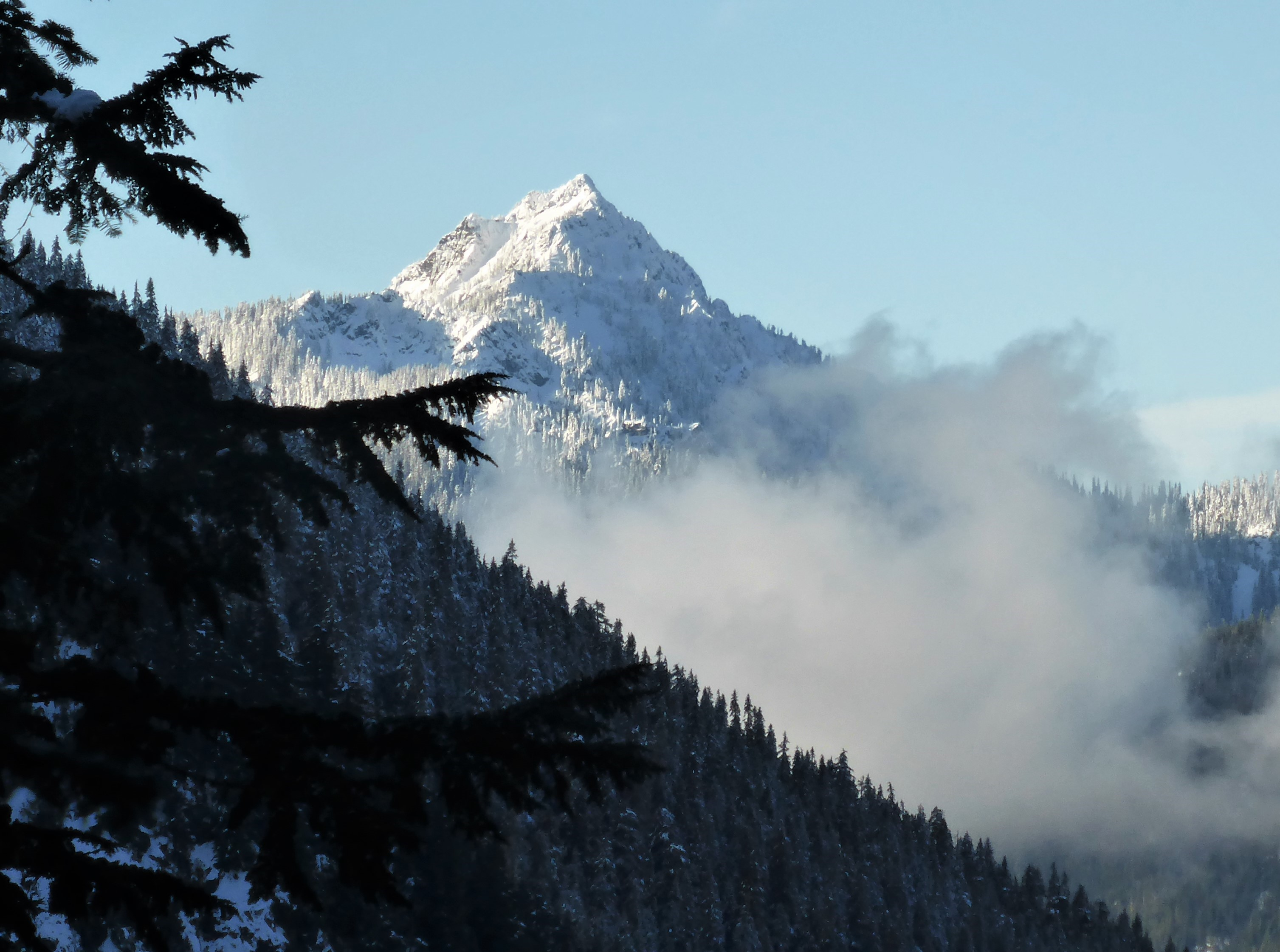 View of Mt. Fernow from trail to Surprise Lake